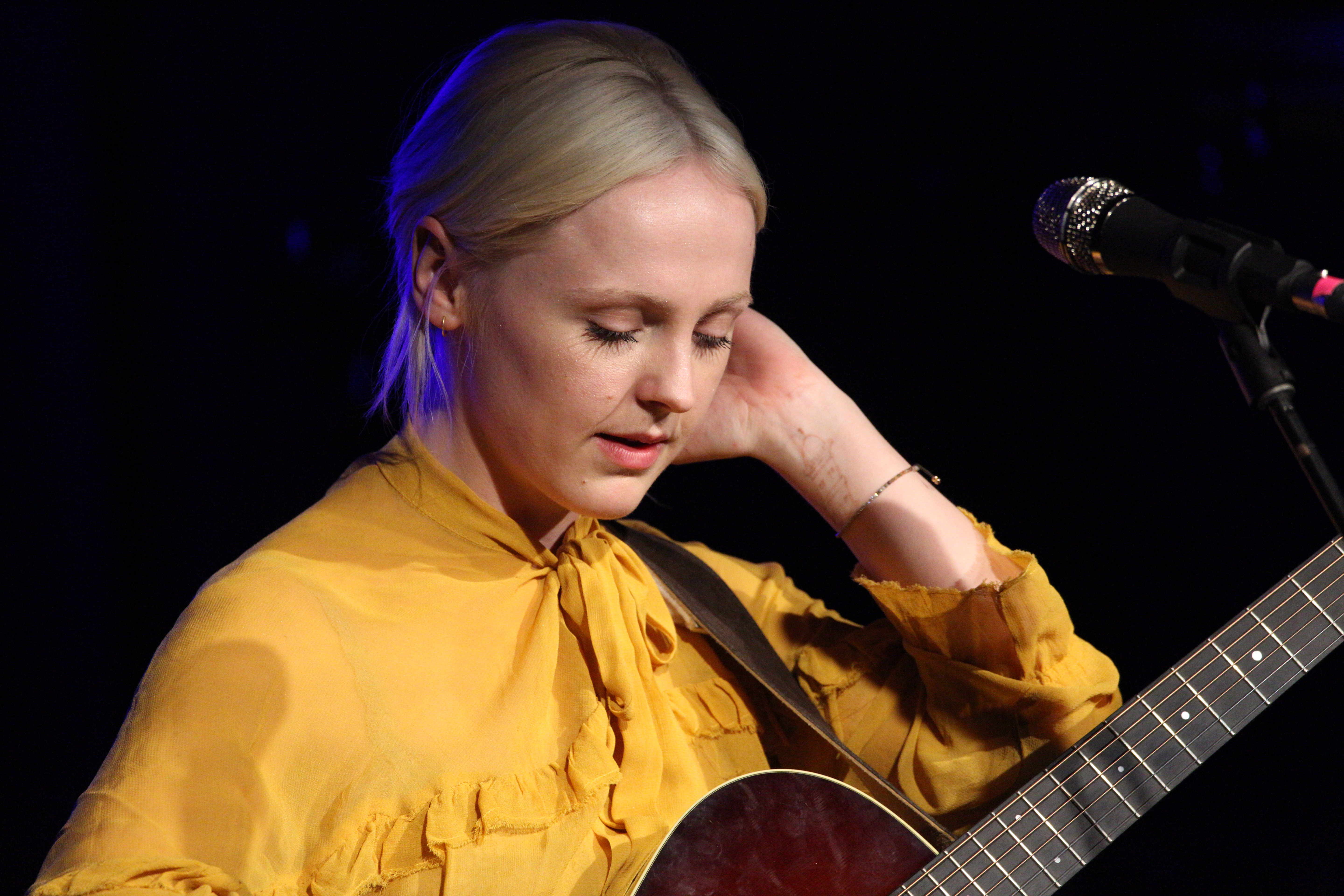 Laura Marling - First Avenue - 5/5/17